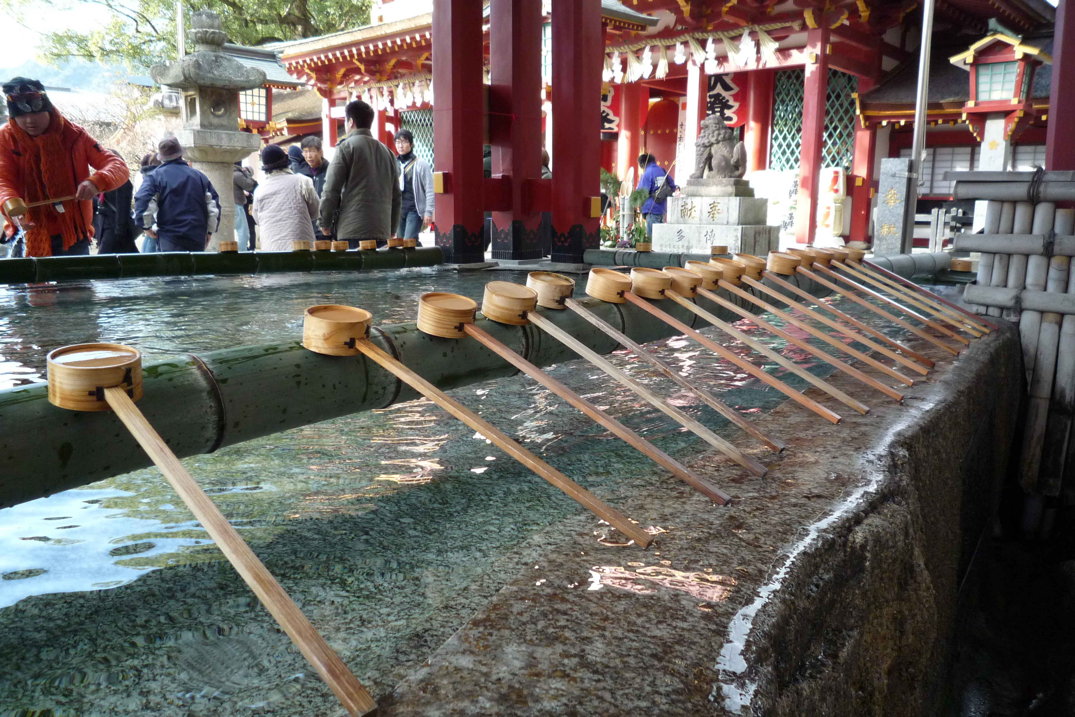 Dazaifu Tenman-gū.